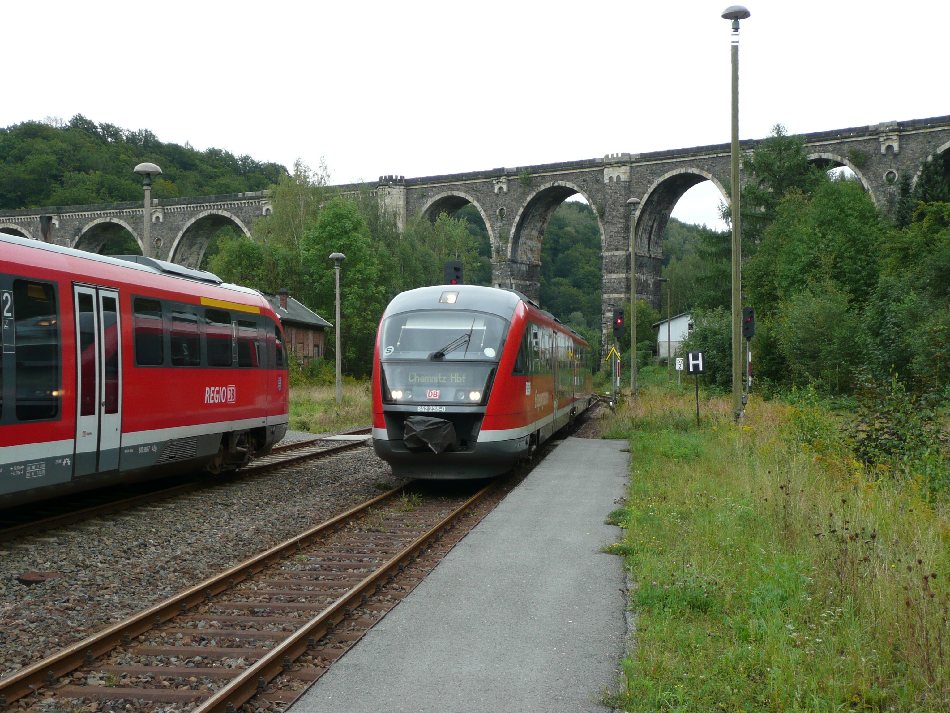 This image shows two multiple units class Desiro on the railway line from Flöha to Olbernhau (Flöhatalbahn) in Hetzdorf station. In the background: The Hetzdorfer Viadukt (1866-69, length: 328 meter, height: 43 meter), a former railway bridge over the river Flöha.